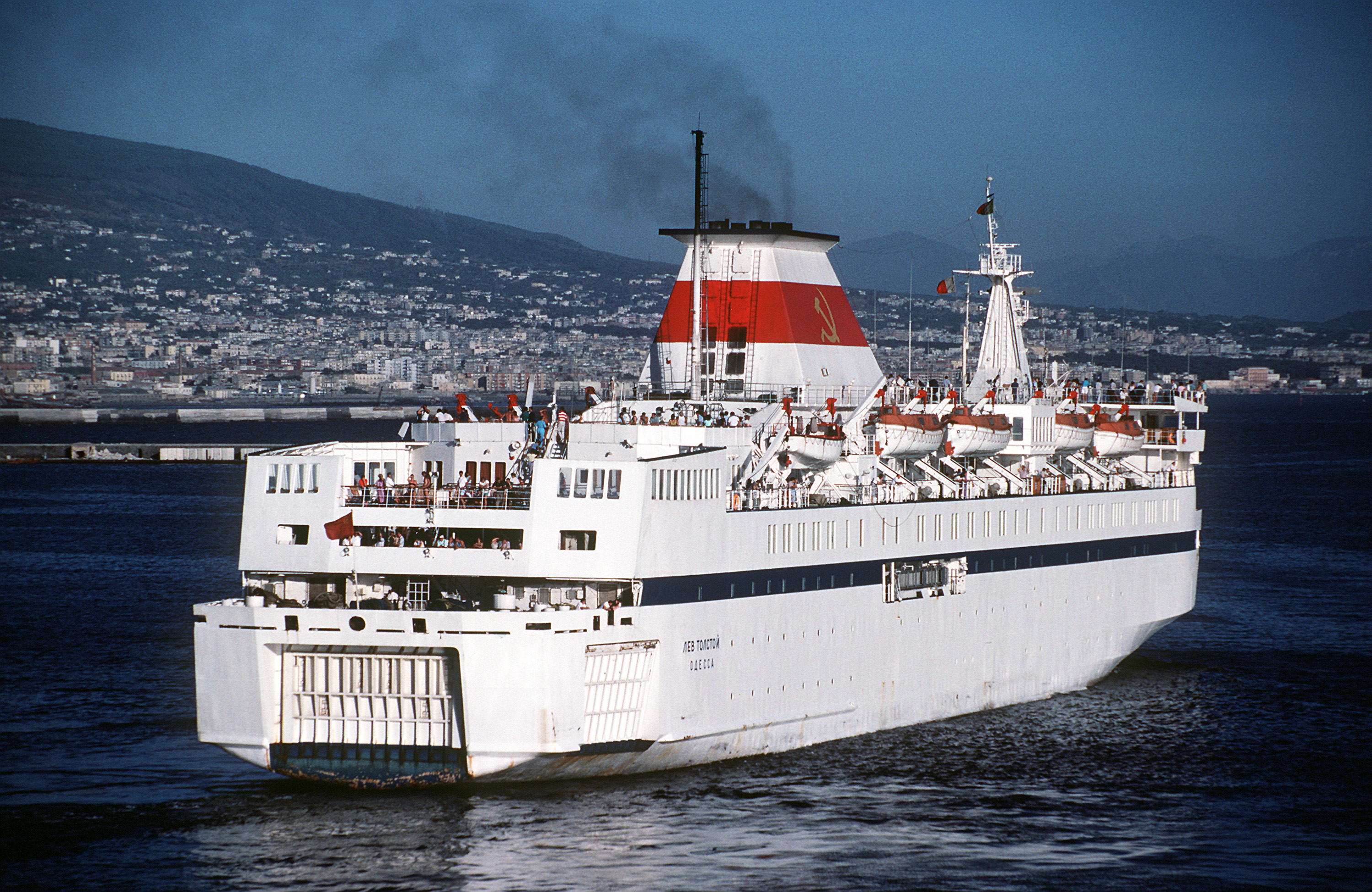 A starboard quarter view of the Soviet roll on/roll off cruise ship LEV TOLSTOY underway in the harbor of Naples.